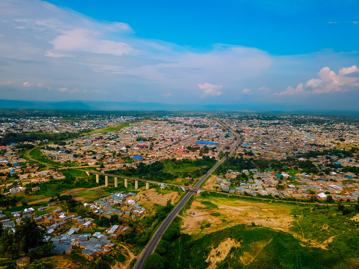 DCIM\100MEDIA\DJI_0003.JPG This is an image with the theme "Africa on the Move or Transport" from: Tanzania